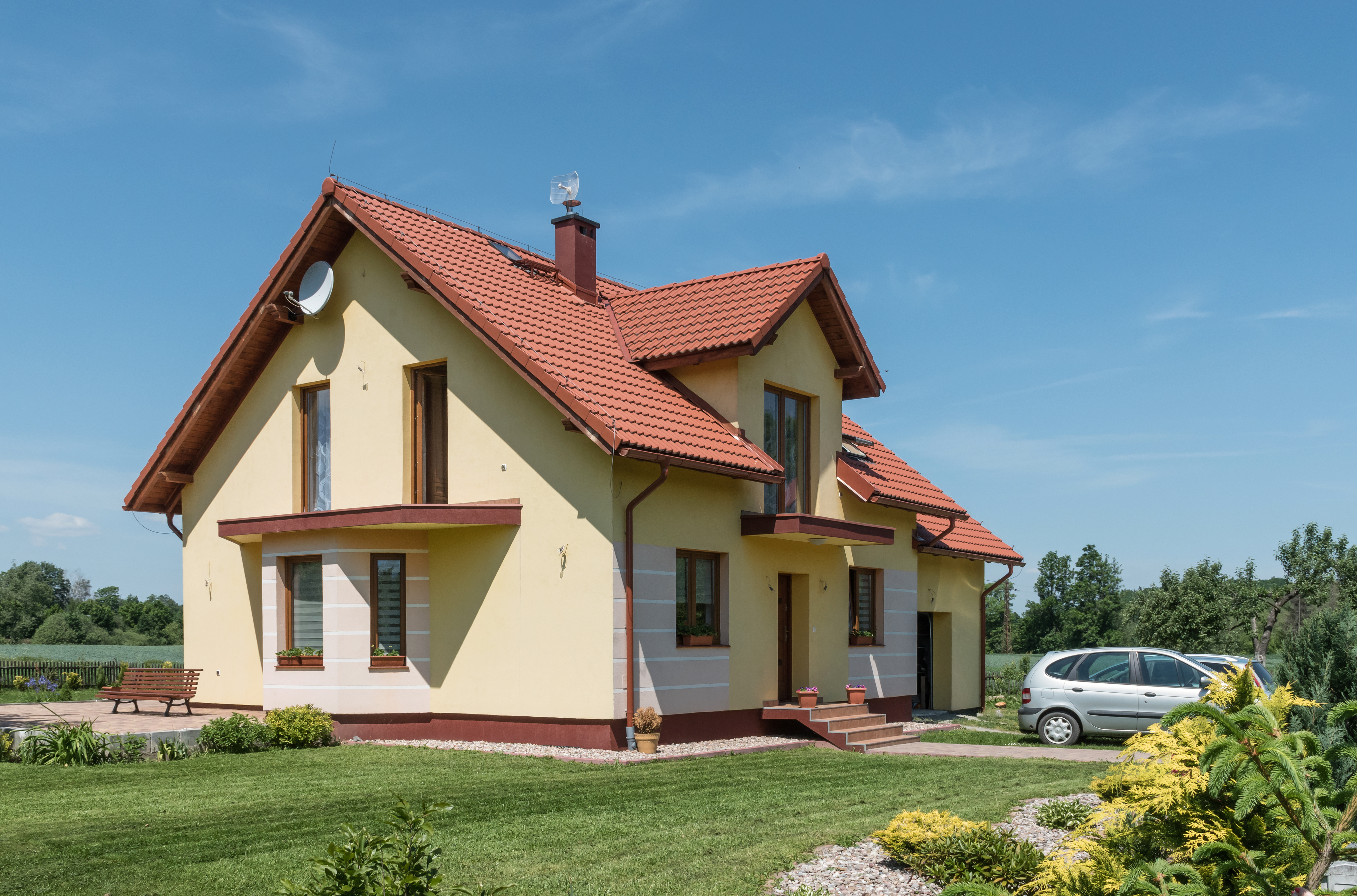 House number 24a in Zabłocie